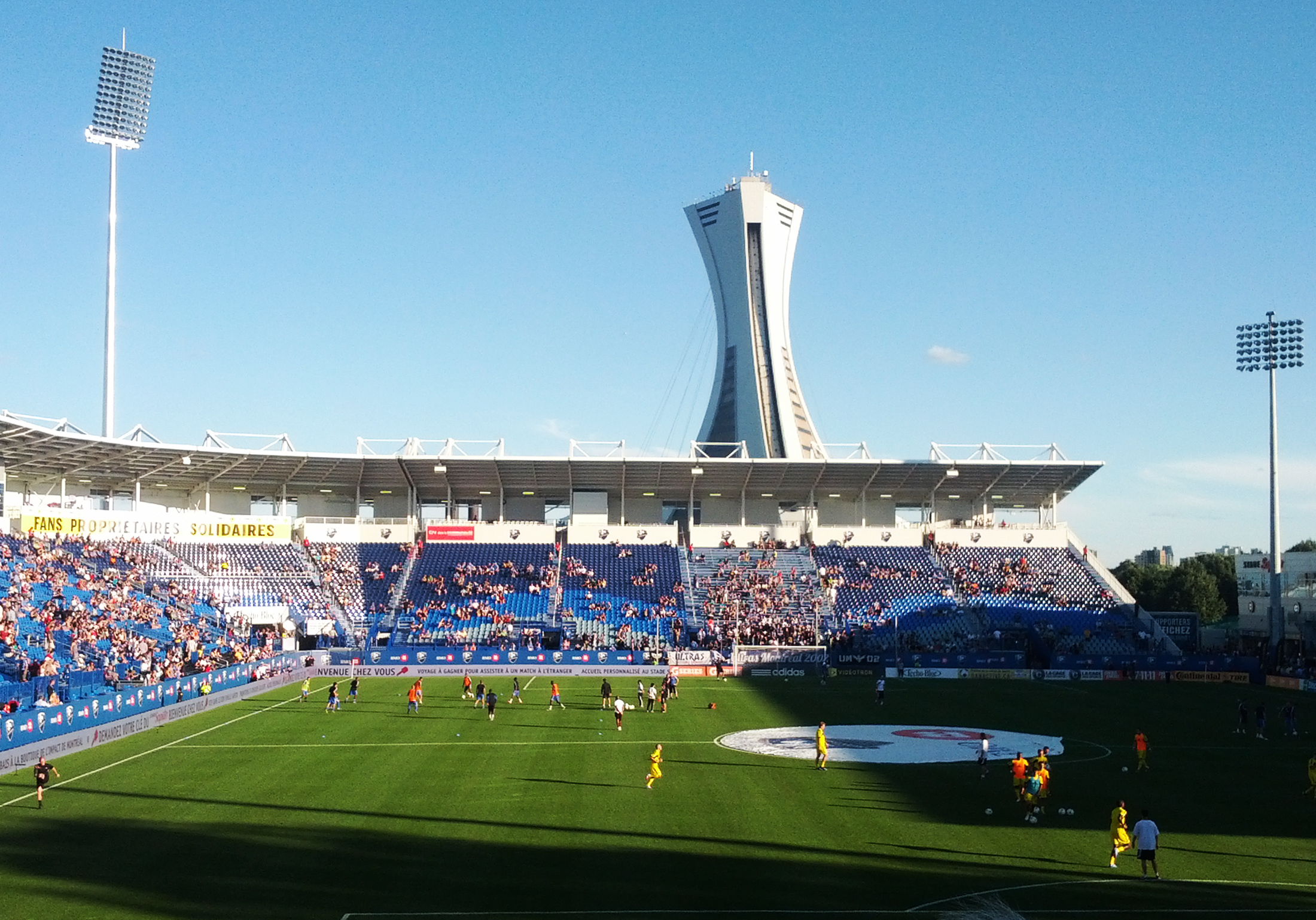 Montreal Impact vs. Columbus Crew pre-game at Saputo Stadium in Montreal, 8 July 2012.